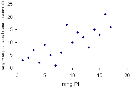 Correlation between the rank of a country sorted with the HPI and the rank when using the percentage of population below half the median of the income, for OECD countries; made with a spredsheet; the maximal rank discrepancy is 8 ranks; the estimator of standard deviation σ is 3.66 ranks; the regression coefficient is 0.79.